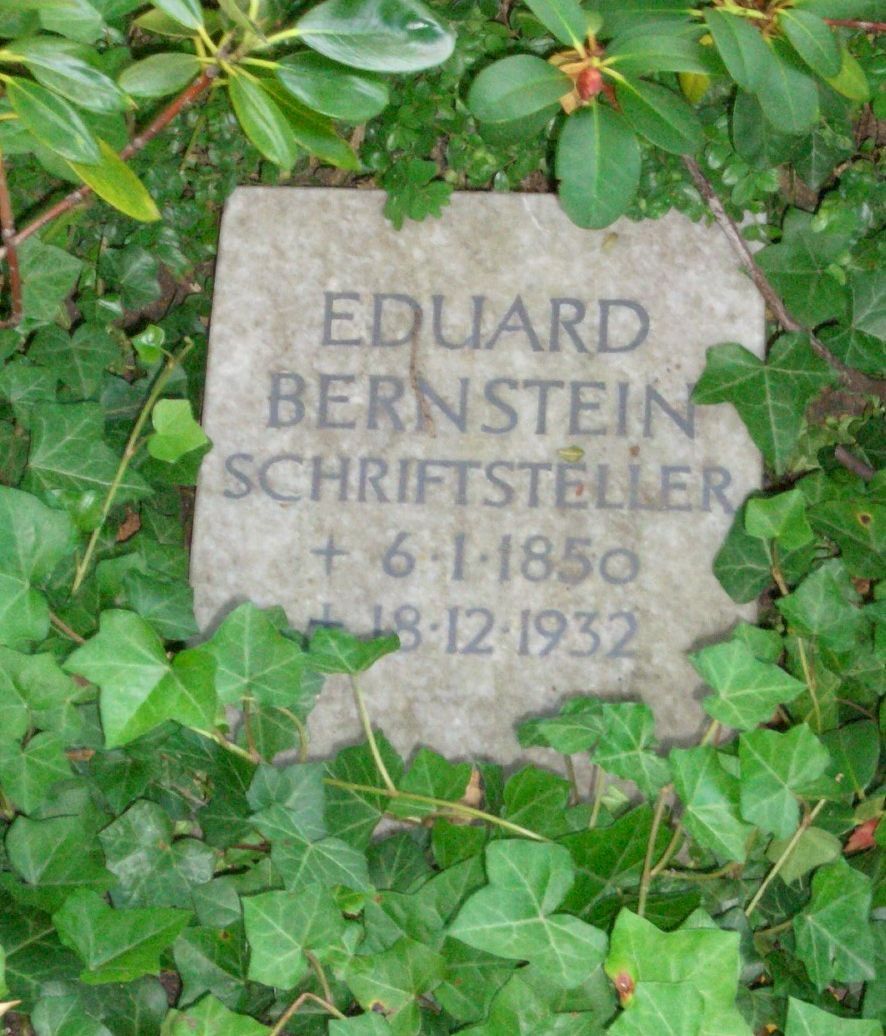 Grave of socialdemocratic theorist Eduard Bernstein (SPD) at graveyard Friedhof Schöneberg I, Berlin, Germany